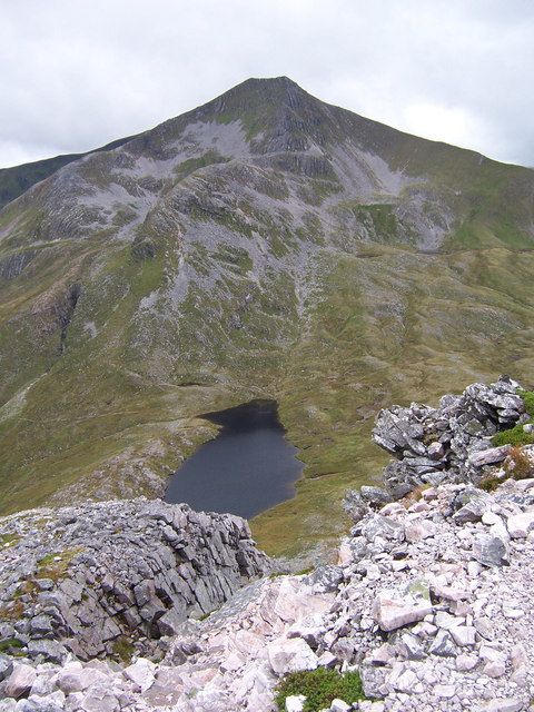 Binnein Mor from the North-East. Binnein Mor from Binnein Beag.